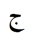 The letter djim from the Arabic alphabet. Djim denotes the sound /j/ (IPA: ʤ).